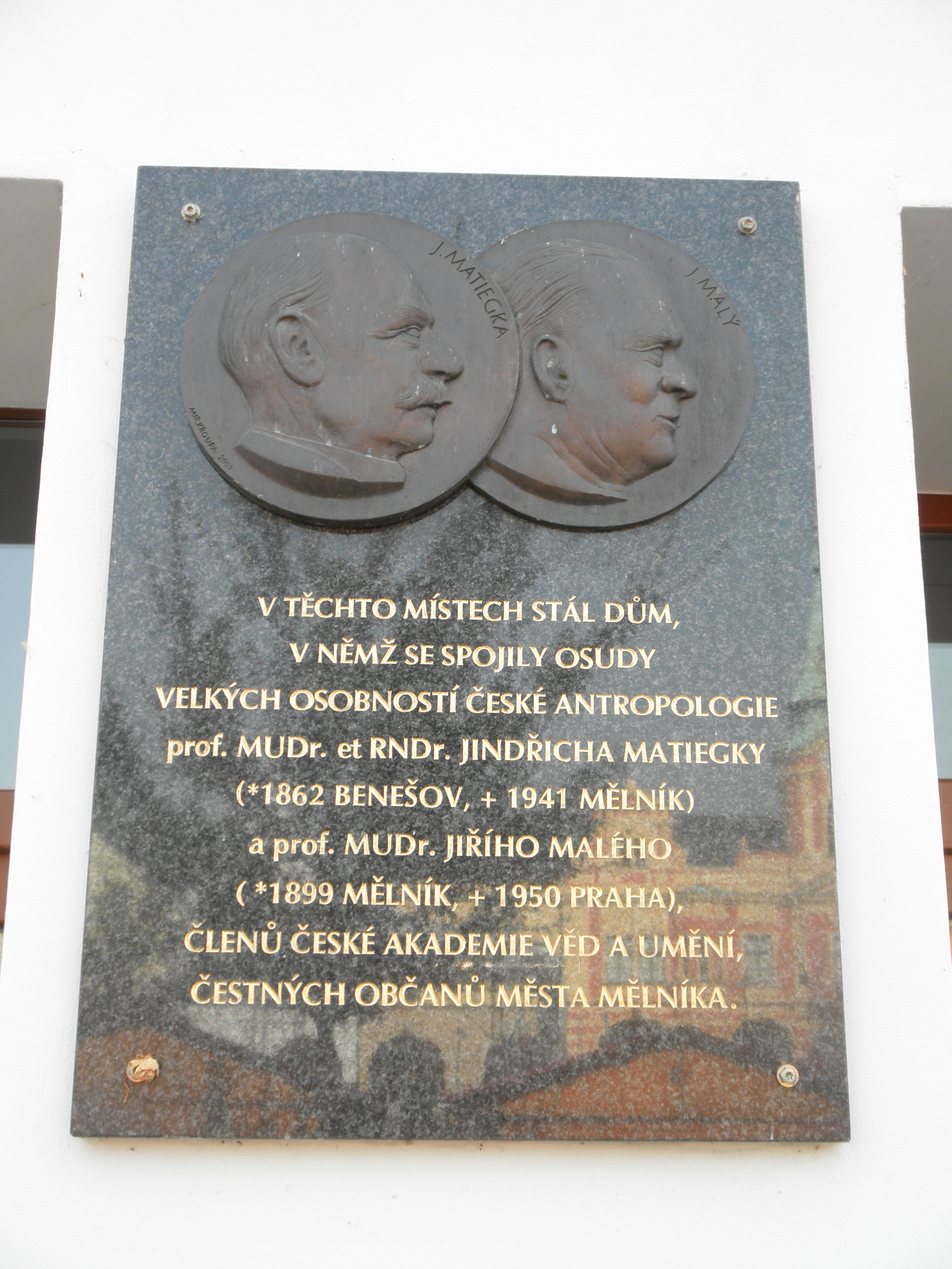 Memorial plaque dedicated to anthropologist Jindřich Matiegka and to physician Jiří Malý in Mělník. The plaque was made by Miroslav Kroupa in 2003.